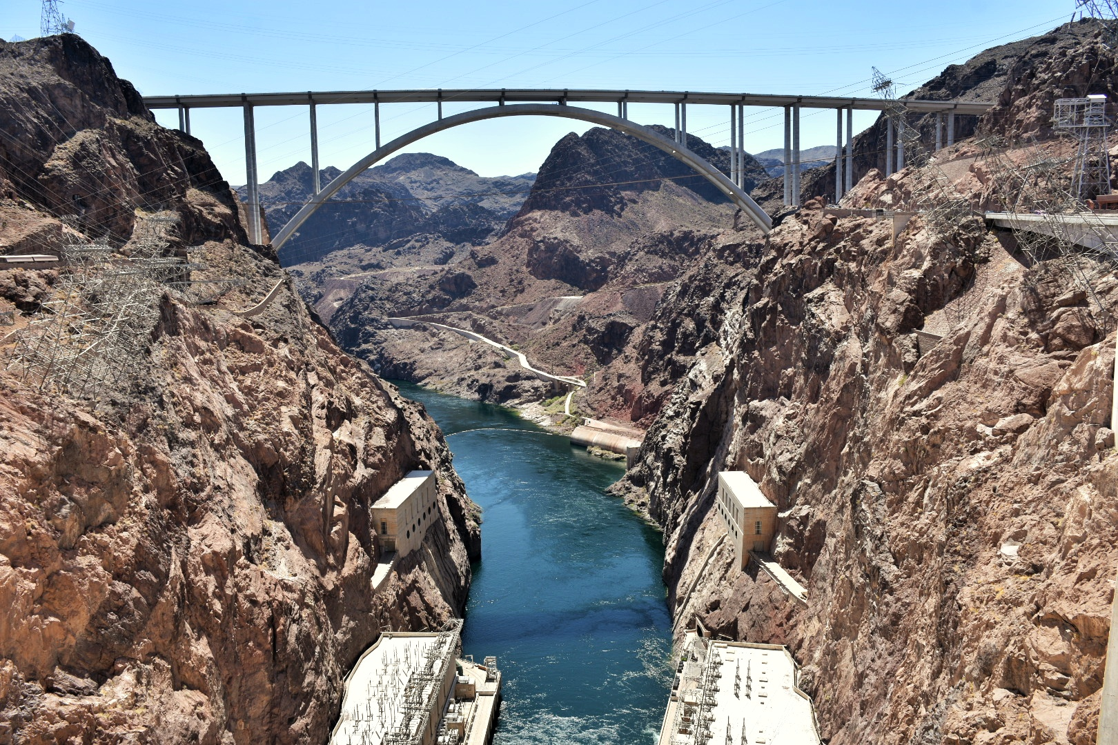 View of the Mike O'Callaghan–Pat Tillman Memorial Bridge From Hoover Dam